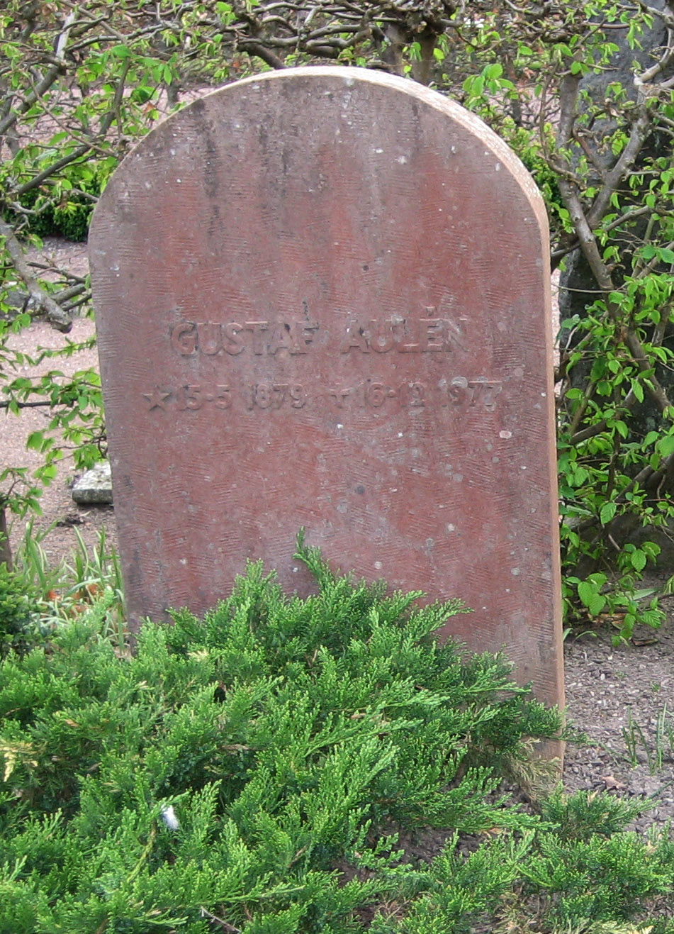 Grave of swedish bishop and professor of theology Gustaf Aulén (1879-1977). Photo taken by the uploader at Norra kyrkogården, Lund, Sweden.